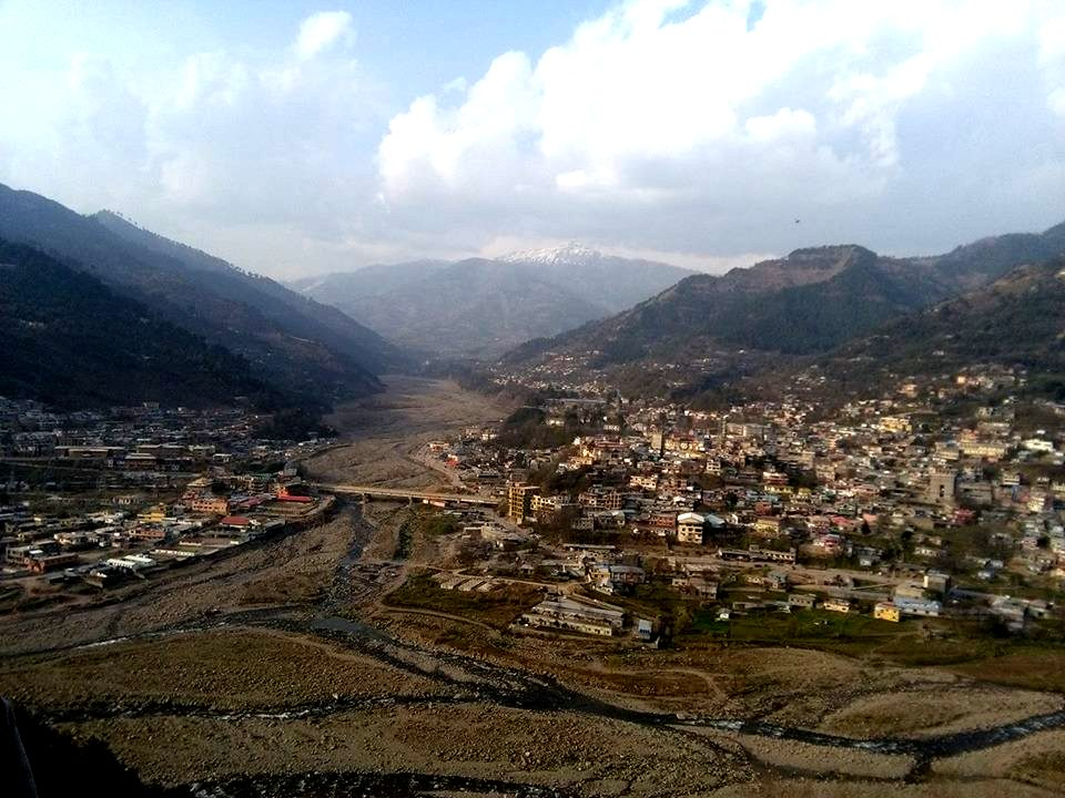 View from Holar: Bagh city at the confluence of Malwani River (coming from top in the image) and Mahl River (from right, foreground), AJK, Pakistan, Asia